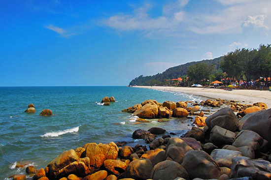 photo taken on the bridge